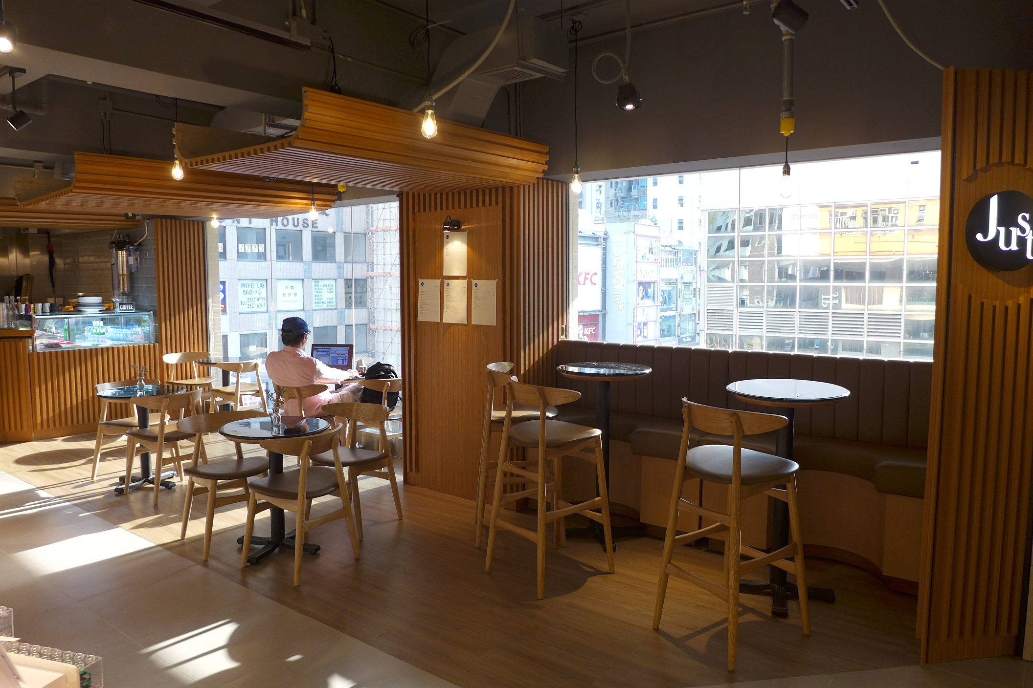 JP Books Wan Chai Store